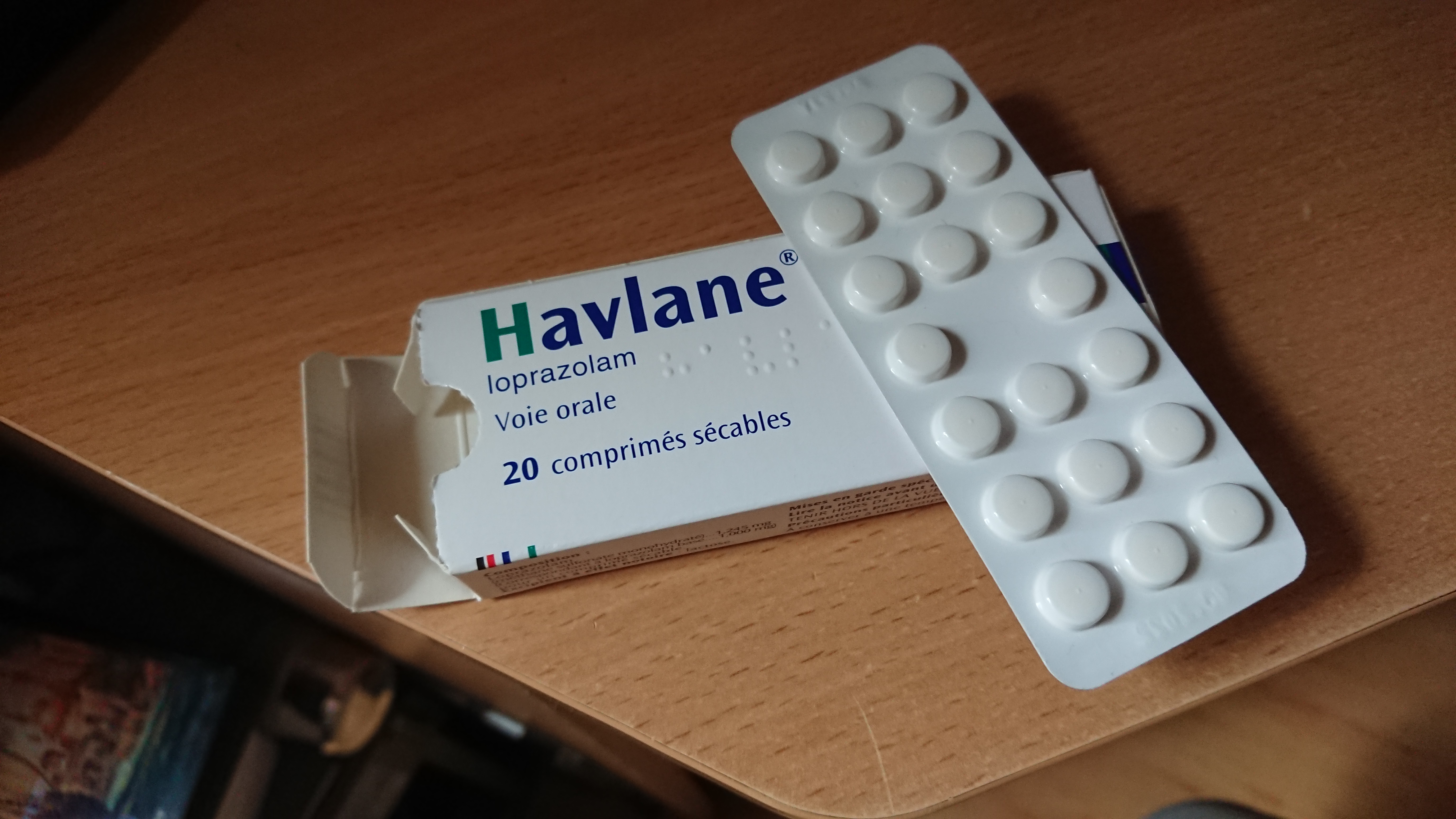 French Loprazolam pills sold as Havlane